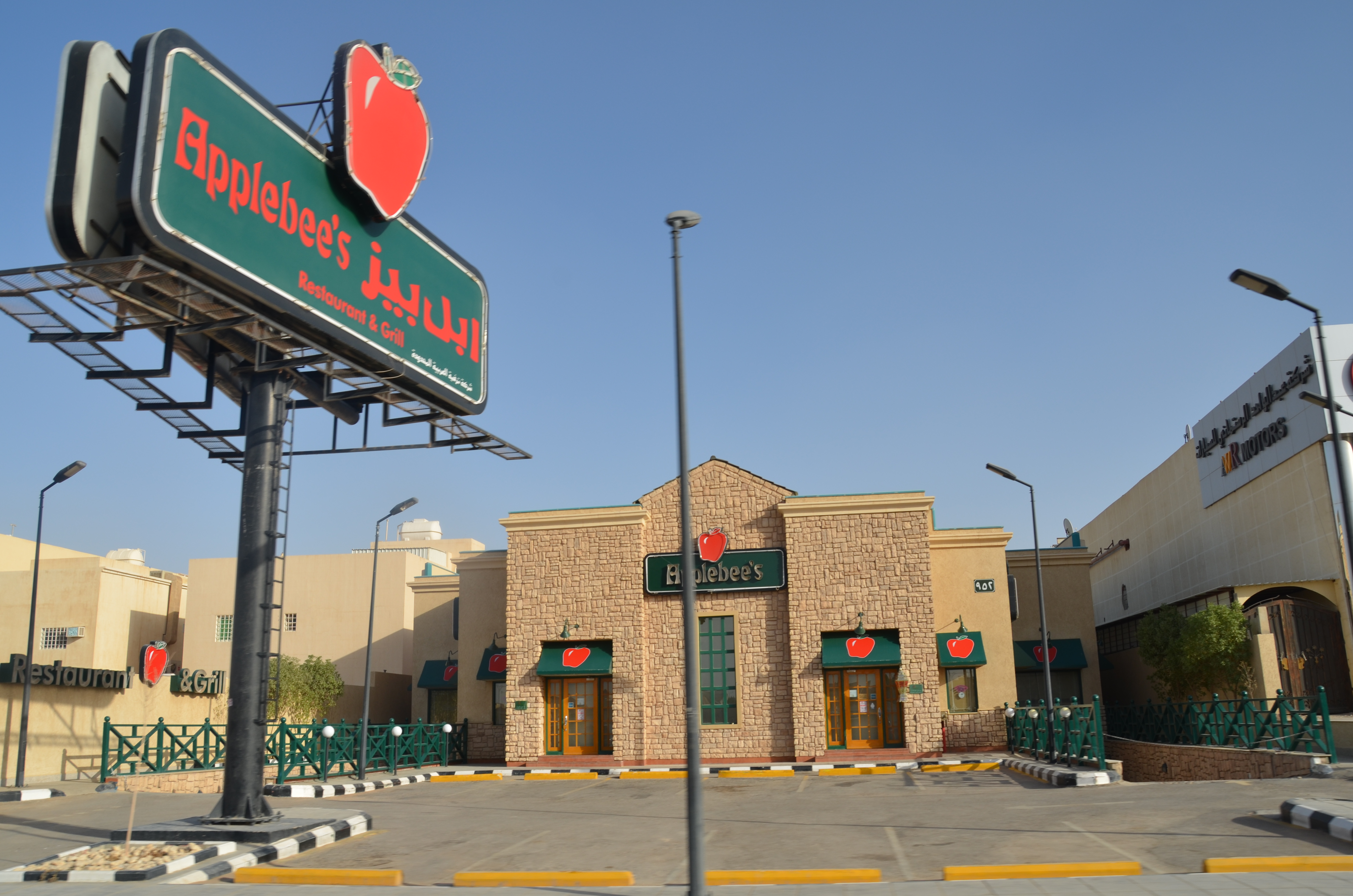 Applebee`s Restaurant King Abdullah Road Riyadh Saudi Arabia